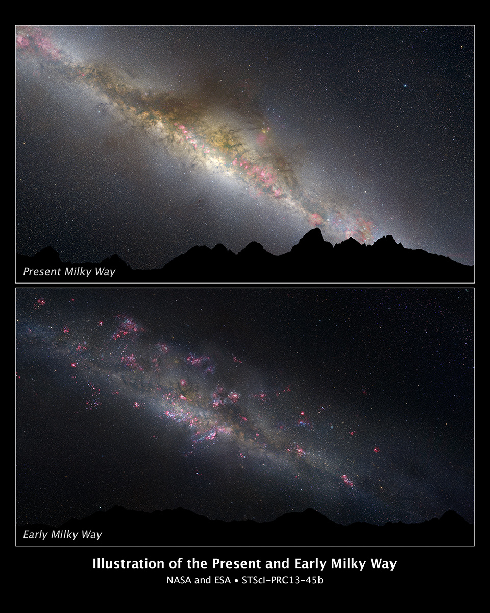 What a difference 11 billion years makes, as can be seen in these two comparative views of our Milky Way galaxy. The top view shows how our galaxy looks today; the bottom view, how it appeared in the remote past. This photo illustration is based on a Hubble Space Telescope survey of evolving Milky Way-type galaxies. [Top View] — The current night sky is dominated by the white glow of myriad middle-aged stars along the lane of the Milky Way. Interstellar "pollution" from thick dust lanes can be seen threading through the long band of stars. They are interspersed with a few pinkish emission nebulae from ongoing star formation. Thousands of stars appear as pinpoints of light throughout the sky. [Bottom View] — This is an imaginary view of our young Milky Way as it may have appeared 11 billion years ago, as seen from the surface of a hypothetical planet. The night sky looks markedly different than the view today. The Milky Way's disk and central bulge of stars are smaller and dimmer because the galaxy is in an early phase of construction. The heavens are ablaze with a firestorm of new star formation, seen in the pinkish nebulae glowing from stars still wrapped inside their natal cocoons. The handful of stars visible in the night sky are blue and bright because they are young. The graphic of today's Milky Way was based on an all-sky image from Axel Mellinger and the Finkbeiner all-sky H-alpha survey. The illustration of the early Milky Way was constructed from the all-sky image from Axel Mellinger and Robert Gendler's image of the M33 galaxy